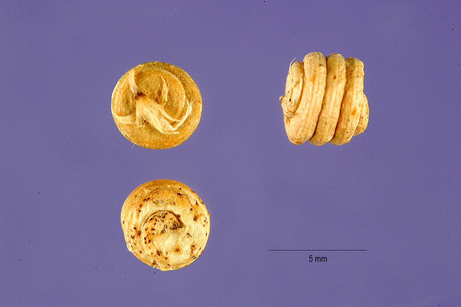 Photograph of Medicago littoralis seed pods.